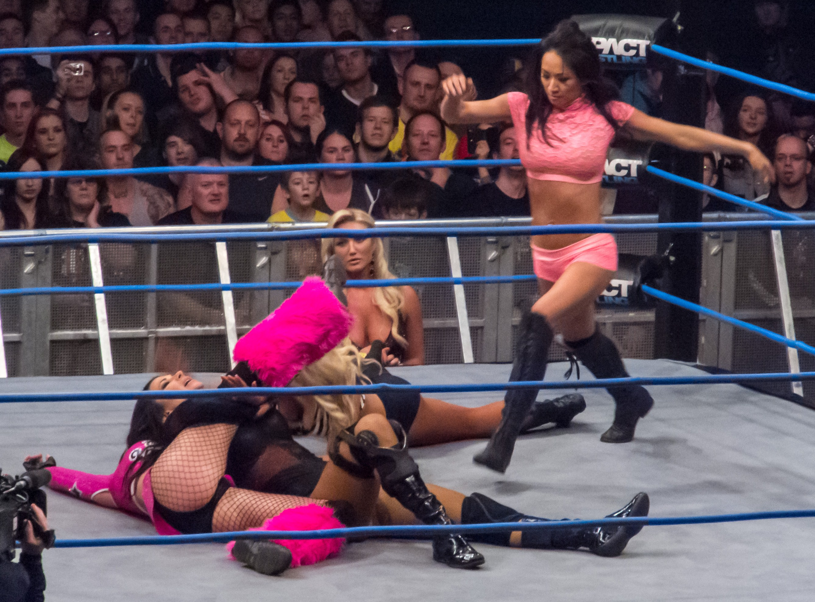 Tara pins Velvet Sky while Gail Kim attempts to break up the pin at the Impact! TV Tapings in Wembley, England on January 26, 2013.